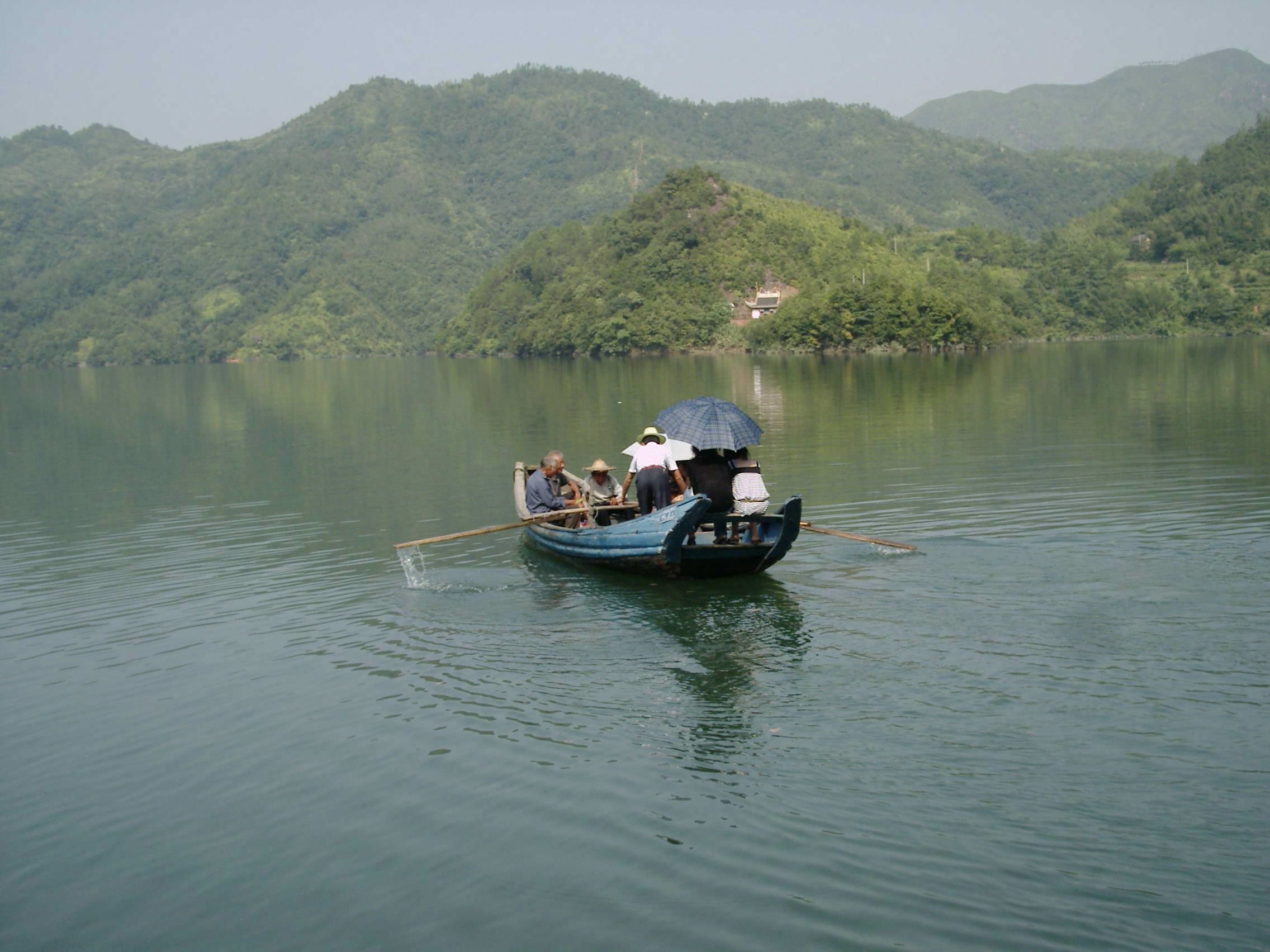 Nanxi lake,Fuding,Fujian,China. It was taken on 2008.8.13